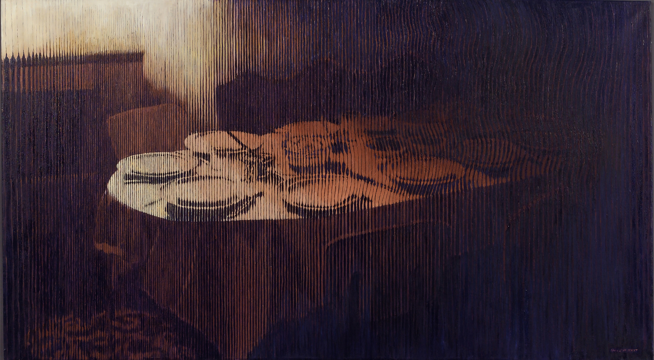 Seder Table, oil on canvas, solo exhibition "History of Silence", solo exhibition Artist House Tel-Aviv